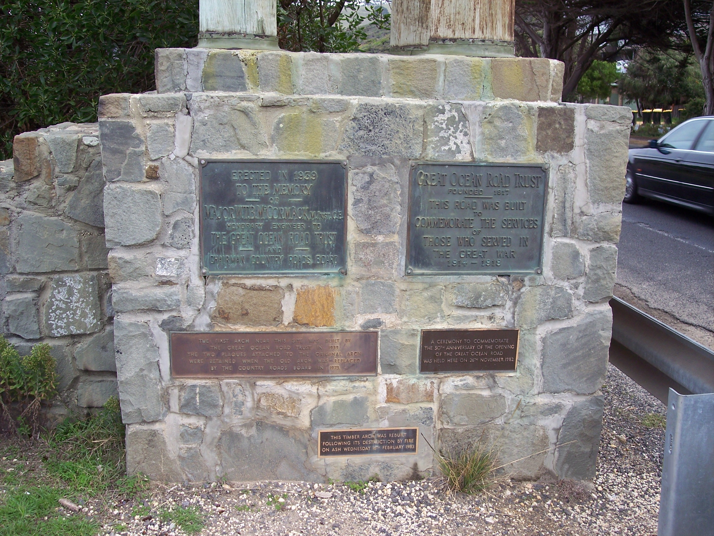 This is a monument to the pioneers who created the Great Ocean Road.